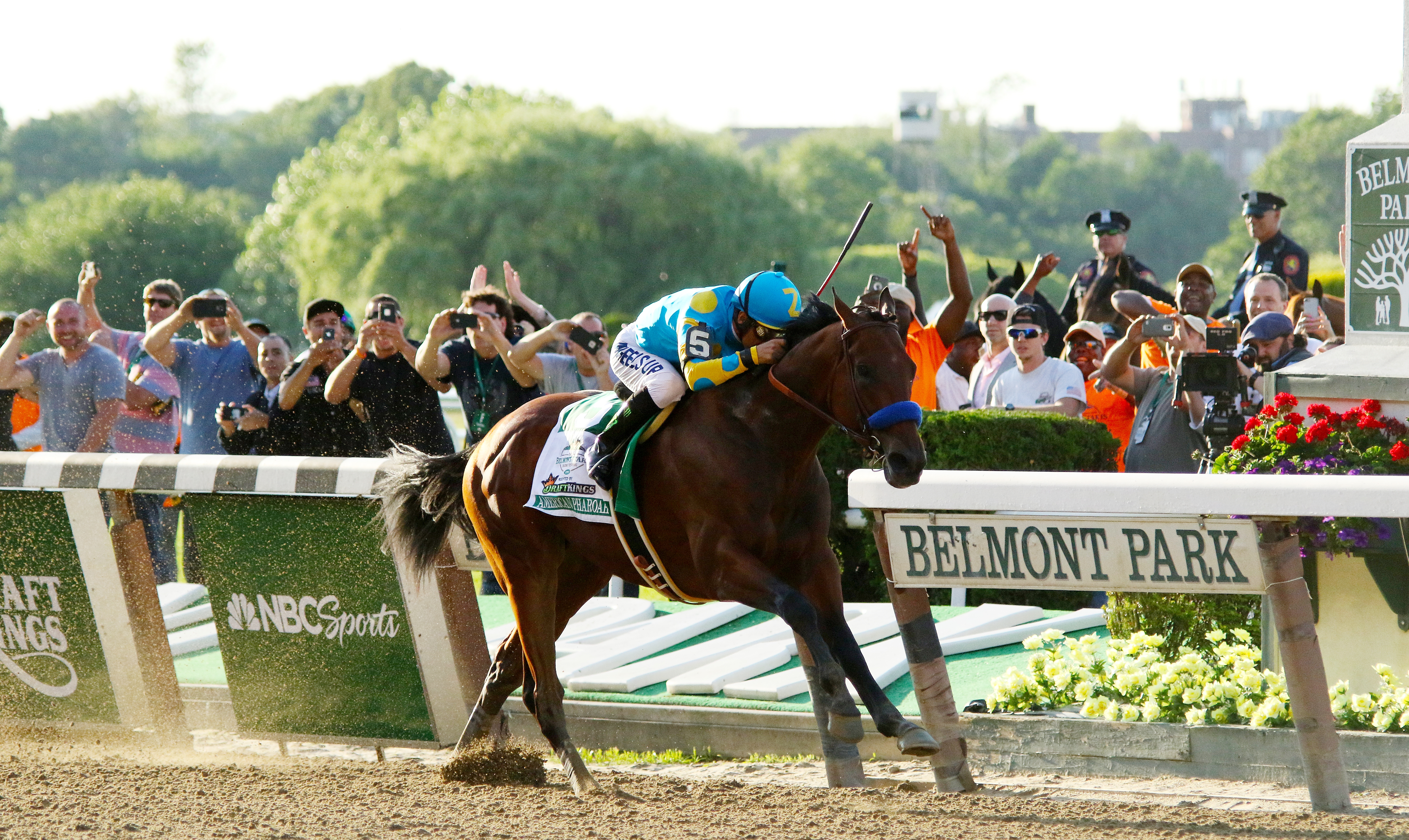 American Pharoah & jockey Victor Espinoza win the Belmont Stakes and the first Triple Crown since 1978 at Belmont Park (New York) for Trainer Bob Baffert and Owner Zayat Stables